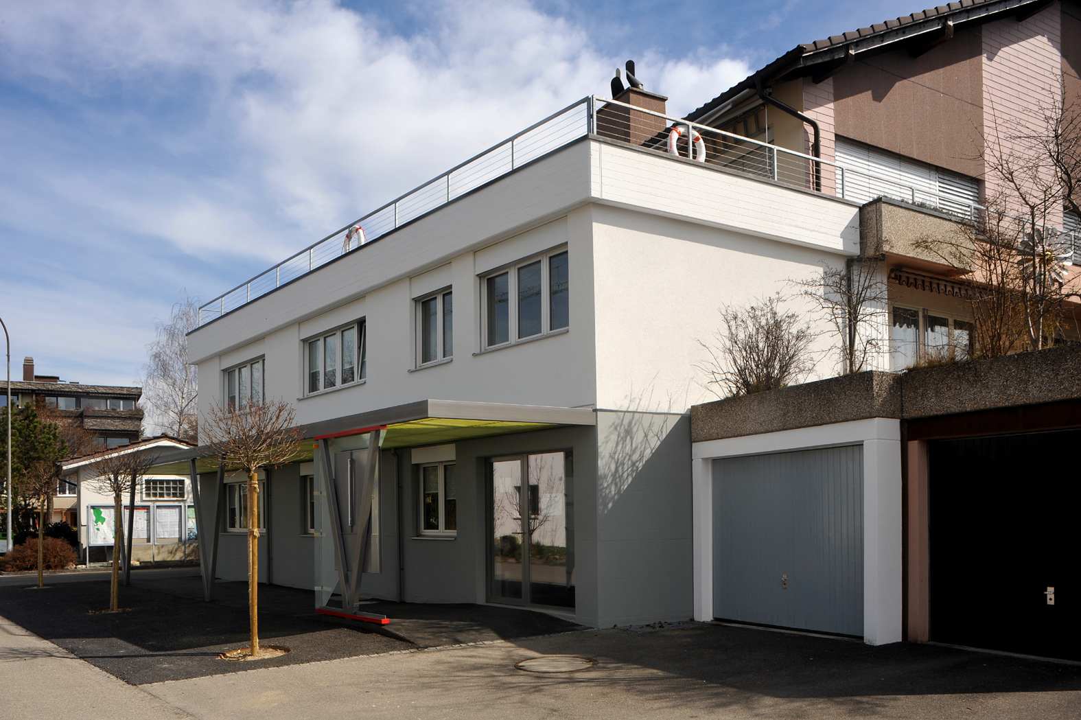 Municipality in Sutz-Lattrigen; Berne, Switzerland.